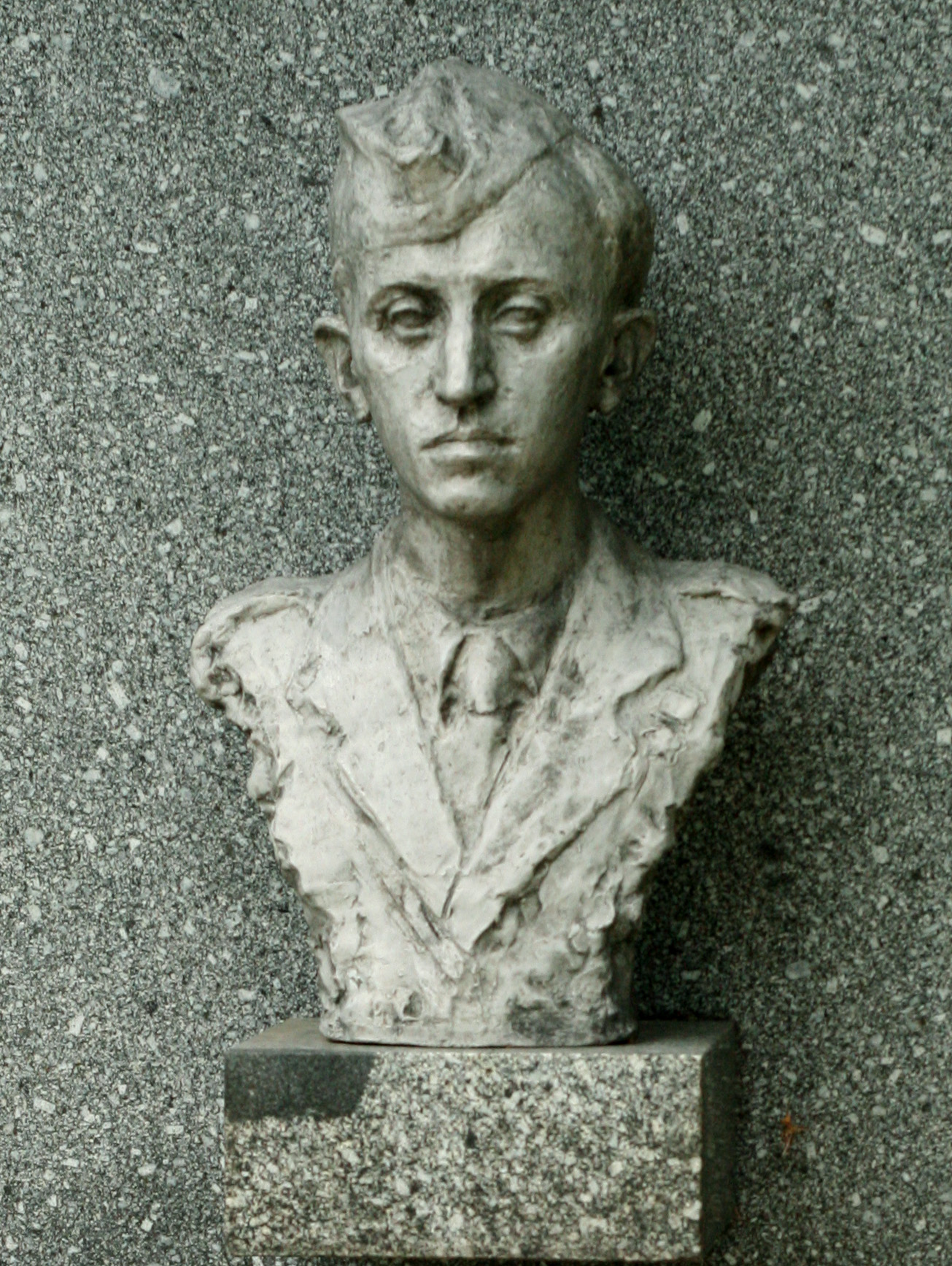 Dukla, Alej hrdinov, generál major Antonín Sochor